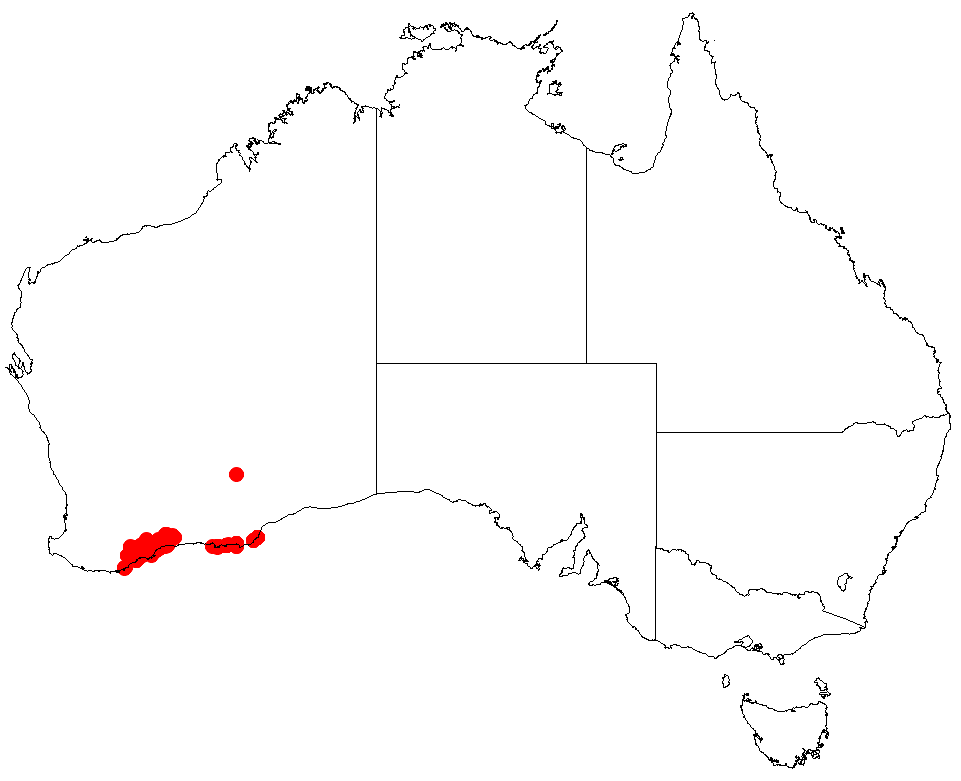 Acrotriche ramiflora Occurrence data from Australasian Virtual Herbarium downloaded 23 November 2018 using